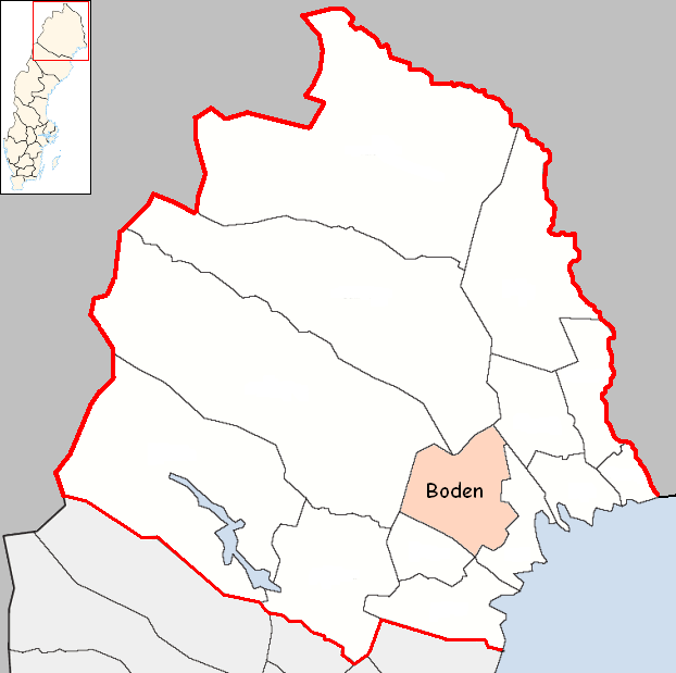 Boden Municipality in Norrbotten County Designed by me. Mere outlines are a PD source from